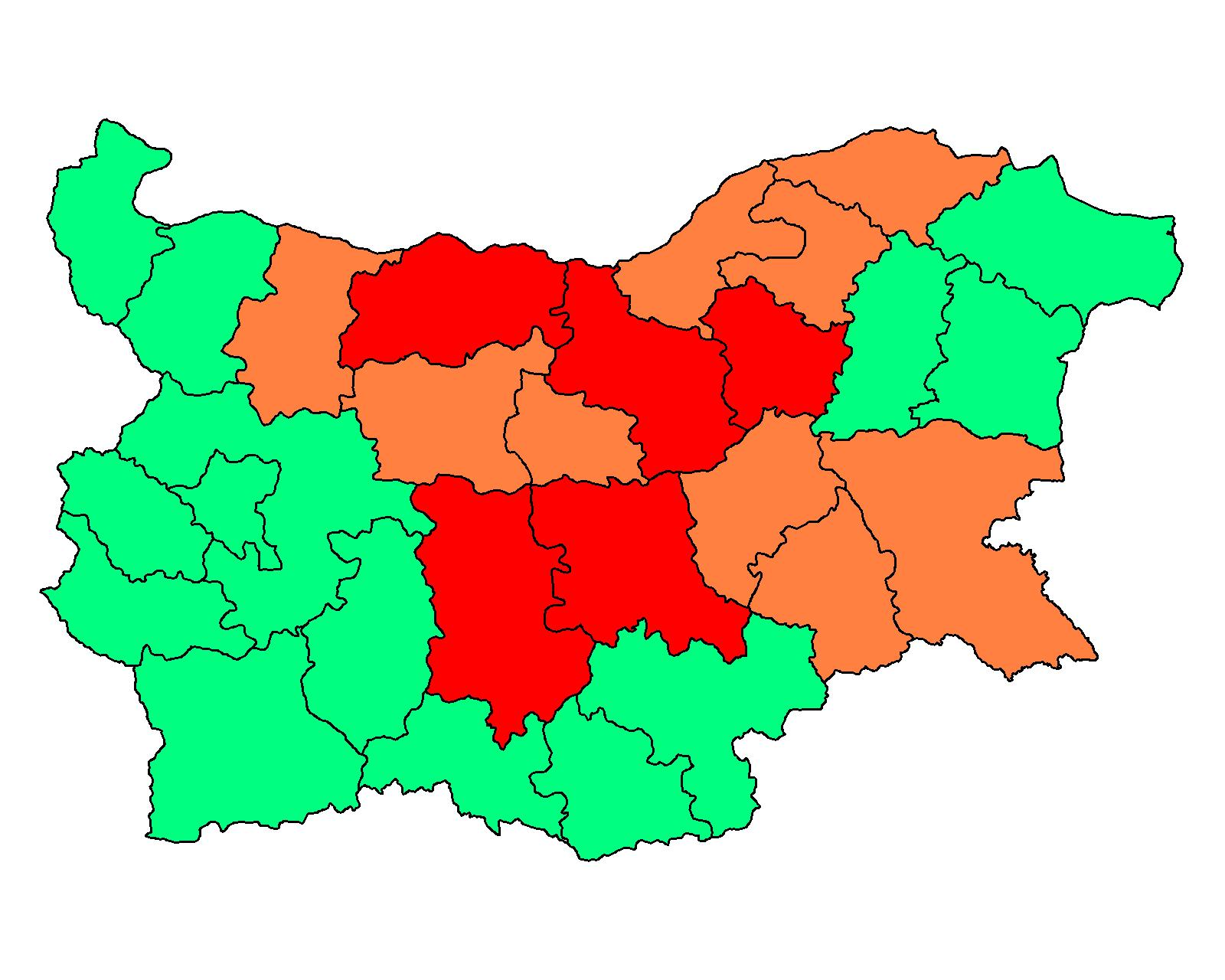 Rabies distribution in Bulgaria 1982 - 1987